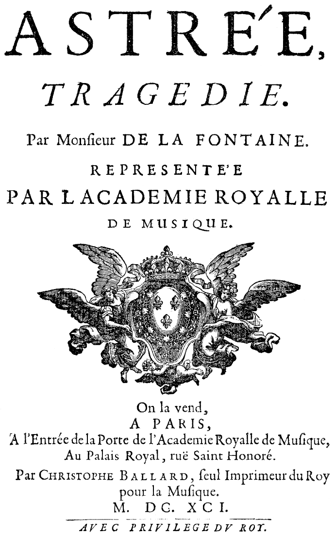 Pascal Collasse - Astrée - titlepage of the librettot - Paris 1691